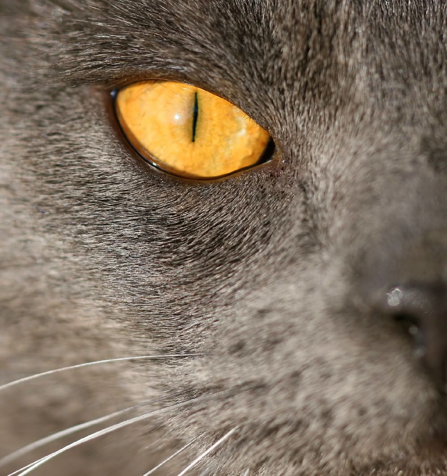 View On Black Cat eye of Chopin, my male "Chartreux"